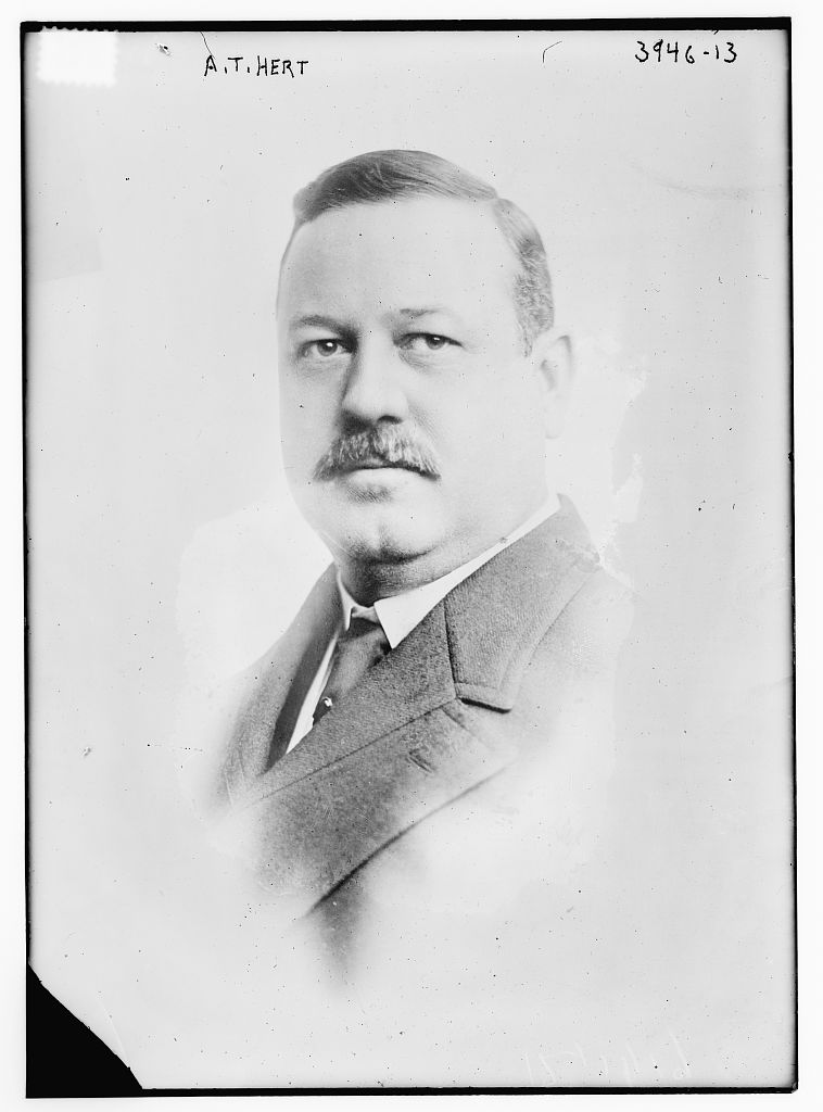 Alvin Tobias Hert in 1916